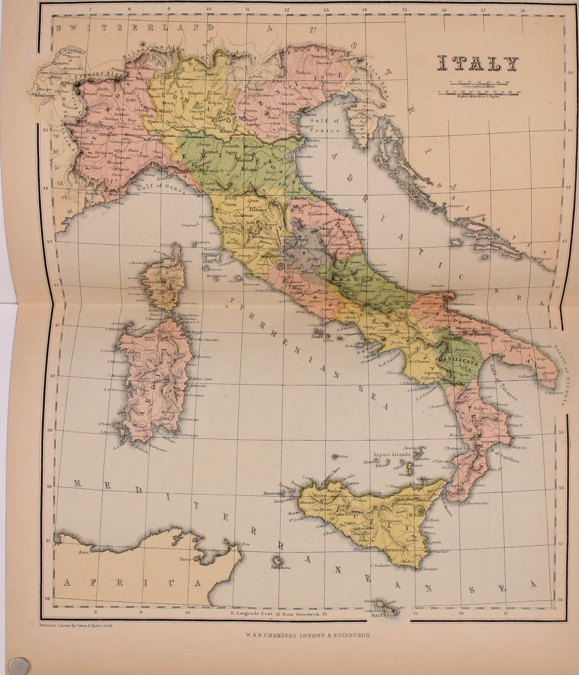 Title: Chambers's encyclopædia; a dictionary of universal knowledge Year: 1868 (1860s) Authors: Subjects: Encyclopedias and dictionaries Publisher: London : W. & R. Chambers Text Appearing Before Image: 231,914907,714541,733375,103696,328 2,752,797 319,164 604,365 493,263 1,416,792 501,880 Text Appearing After Image: ITALY. Provinces. Area in F.ng.bq. Miles. PopulatioQinlSTl. 60. Calabria Citra (Ciisenza), . 61. - II Ultra 1. (Reggio), . 62. w / II. (Catanzuroi, 2,856-381,129-072,308-49 443,483353,606412,2^6 Calabria, .... 6.293-94 1,209,315 63. Caltanisetta, 64. Catania 6o. Girgenti, .... 66. Messina, 67. Palermo, .... 65. Siraeusa (Nolo), , 63. Trapani, .... Sicily, Total, l,4.H-901,969-95l,49i-88l,7f)7-881,964-041,426-461,2161811,290-3J 109,738-61 230,066470,850289,018419,28(i615.9052!)4,87423i,324~2,565,.:!.326,7167809 Physical Aspect.—The physical aspect presentedby the surface of I. is diversified in the extreme.Northern I. is, for the most pait, composed of onegreat plain—the basin of the Po, comprising allLombardy and a considerable portion of Piedmontand Venice, bounded on the north-west and partlyon the south by different Alpine ranges. ThroughoutCentral I., the great Apeunine chain gives a pic-turesque in-egularity to the physical configurationof tlie countiy, which in the southern